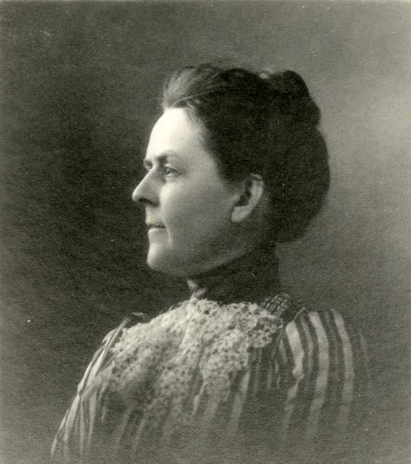 Katherine Jones portrait, circa 1900